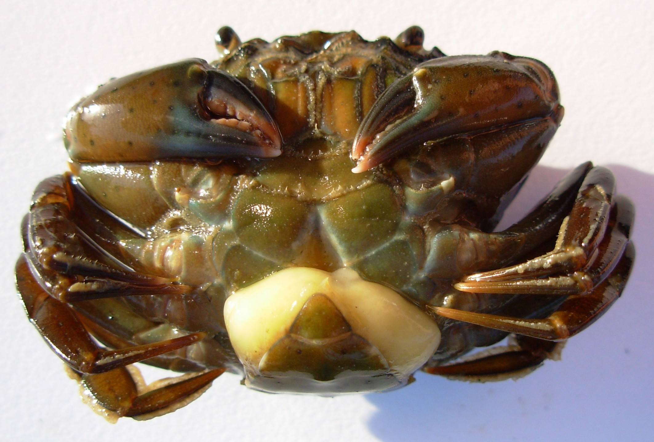 Sacculina carcini parasite of a female shore crab, Carcinus maenas.